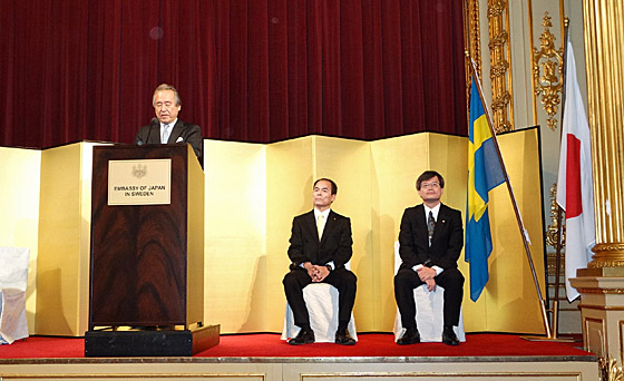 Hiroshi Amano, Director of Akasaki Research Center, Nagoya University, Shuji Nakamura, Research Director for the Solid State Lighting and Energy Electronics Center, University of California, Santa Barbara, and Seiji Morimoto, Ambassador to Sweden, attended the reception at the Grand Hôtel in Stockholm Municipality, Stockholm County on December 8, 2014.